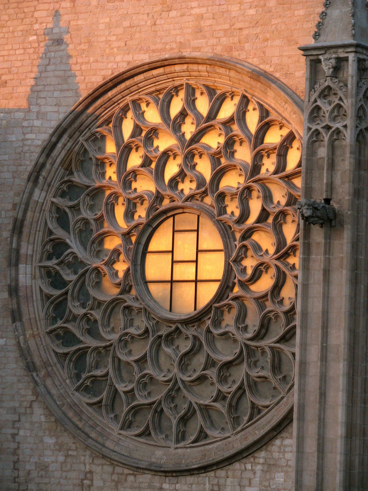 Window of the church Santa Maria del Mar in Barcelona, Spain. Photo taken from the roof terrace of my apartment building, and therefore not a usual view of this window.